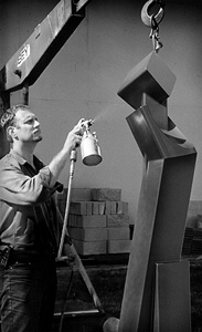 Robert Hague spray painting sculpture, 2002.